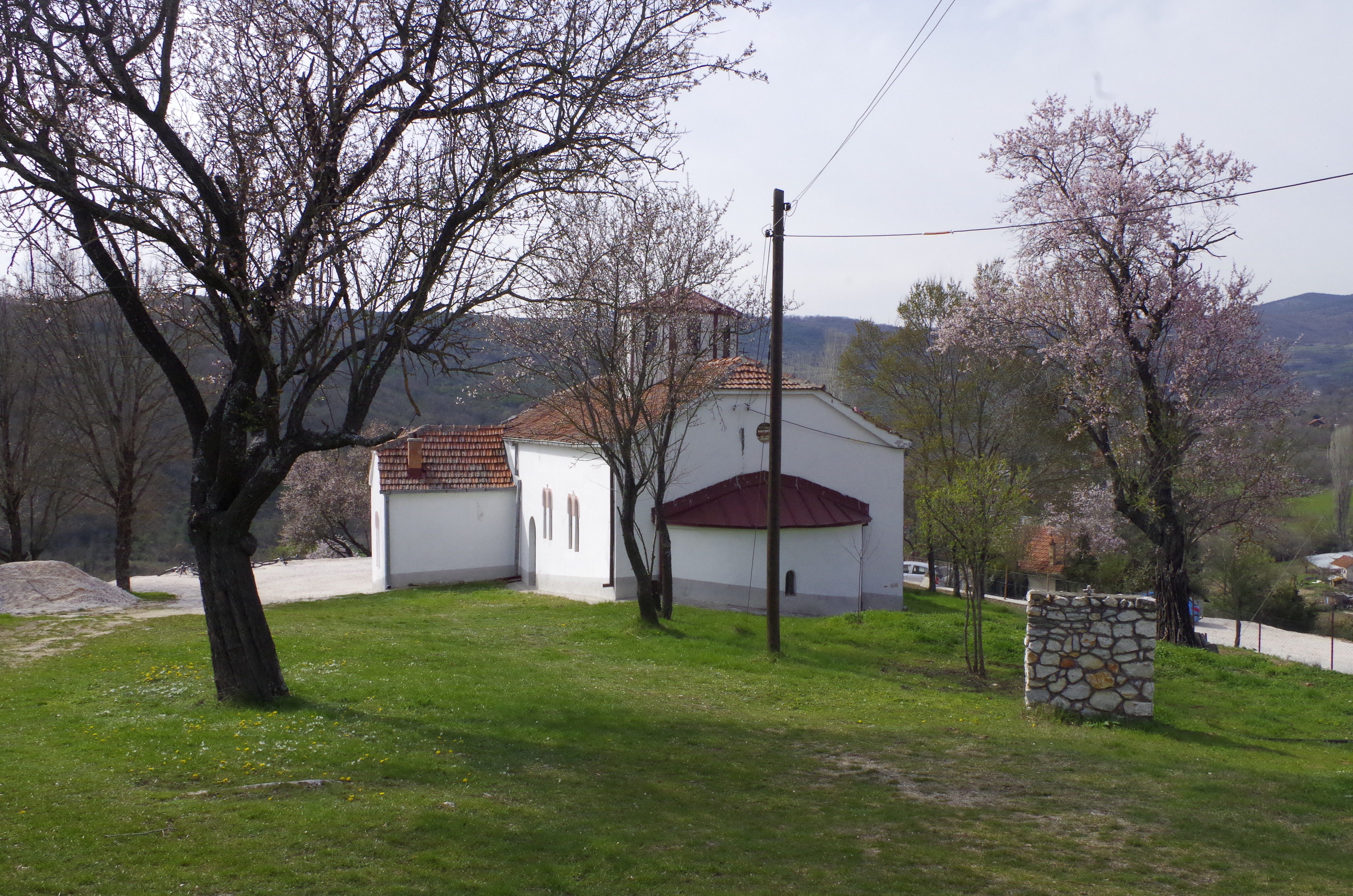 The main church in the Monastery of Govrlevo seen from east